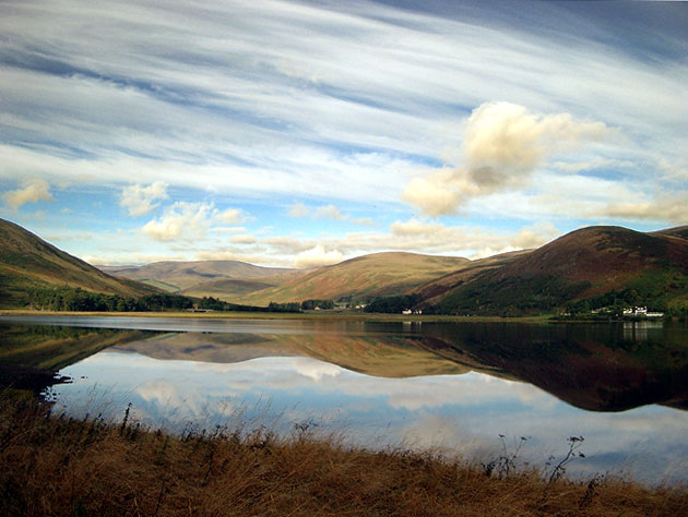 St. Mary's Loch from Bowerhope. Looking west.